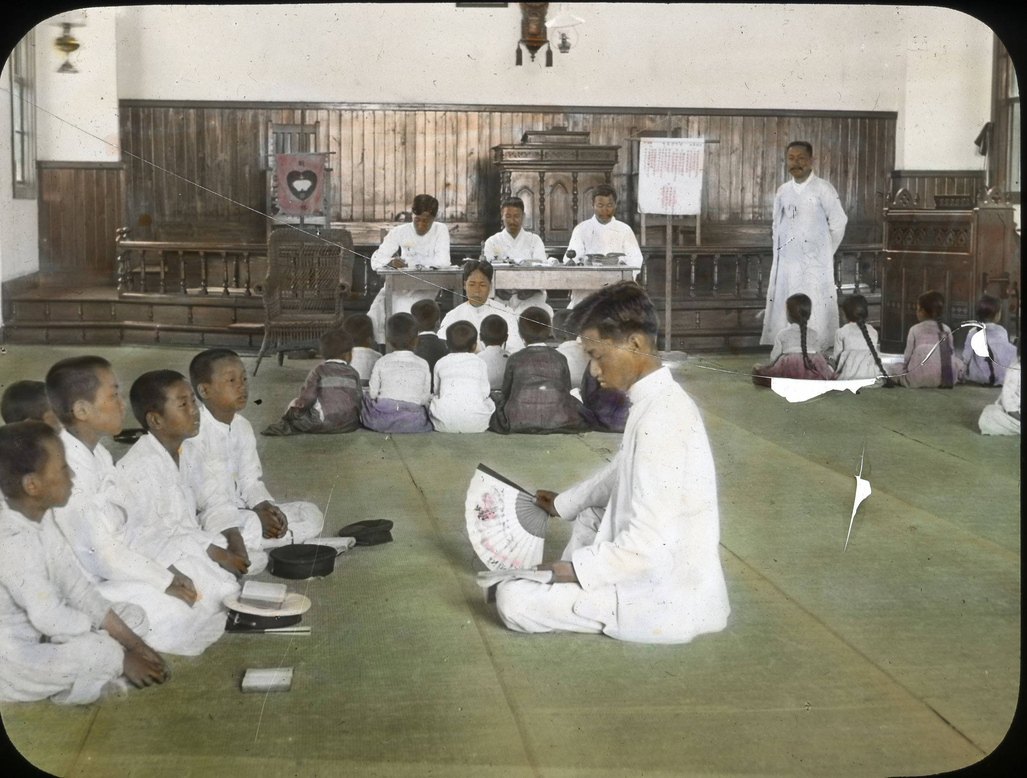 A sunday school class, Korea, [s.d.] As do the elders, the children sit in their class groups. Methodism has 23,500 pupils in 460 Sunday Schools. Schools are conducted in many villages which do not yet have churches. Date created: 1908/1922 Publisher (of the Digital Version): University of Southern California. Libraries Repository Name: Methodist Church (U.S.) Legacy Record ID: kda-m61 Photographer: Methodist Episcopal Church Format: photograph Archival file: kda_Volume42/Taylor_box45num48.jpg Rights: "Neither the General Conference nor any General Agency of The United Methodist Church (successor to the Methodist Episcopal Church) claims any interest in the photos or images." Filename: Taylor_box45num48 Coverage date: 1908/1922 Contributing entity: University of Southern California Repository Address: Nashville, Tennessee Part of collection: Korean Digital Archive Donor: Taylor, Ewing Bevard Type: images Part of subcollection: The Reverend Corwin & Nellie Taylor Collection Geographic Subject (Country): Korea Compiler: Taylor, Corwin; Blood-Taylor, Nellie